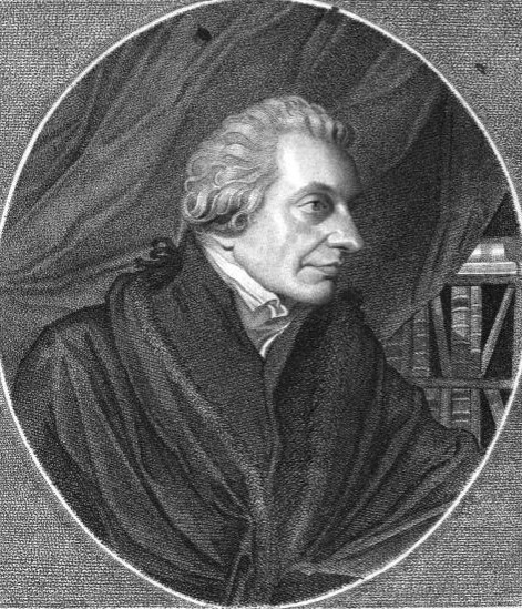 Portrait of Michael Wodhull (1740–1816), English book collector, translator and poet.